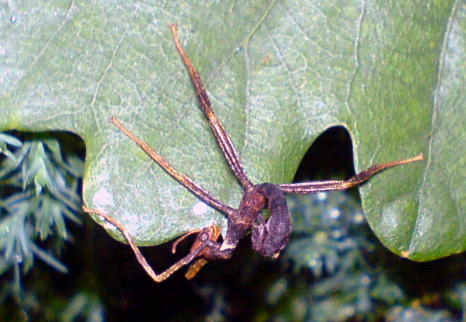 Extatosoma tiaratum, Insect, jung male